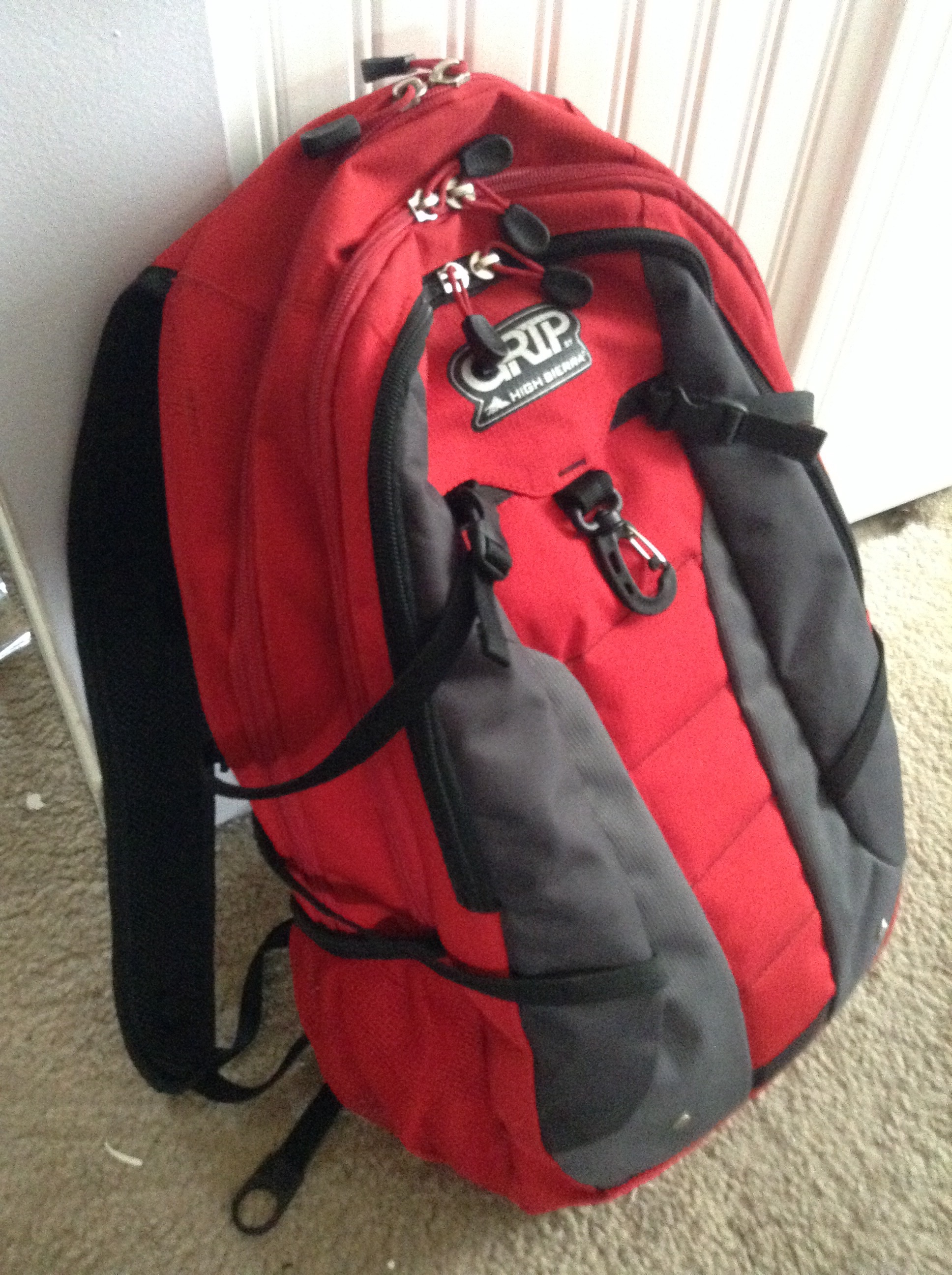 Backpacks for school kids in some countries often look like this.